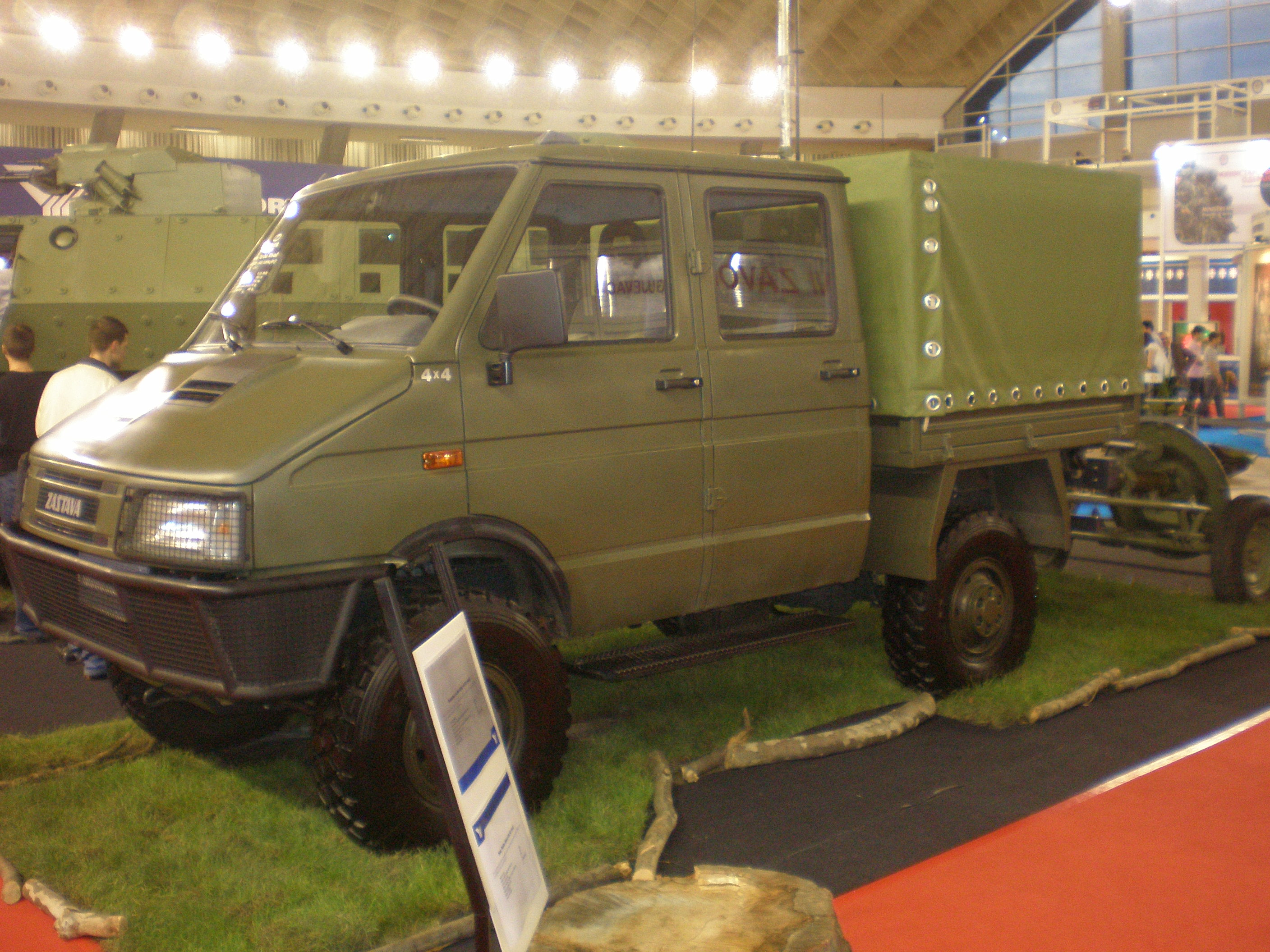 Zastava New Turbo Rival 4x4 military truck on display at "Partner 2009" military fair.